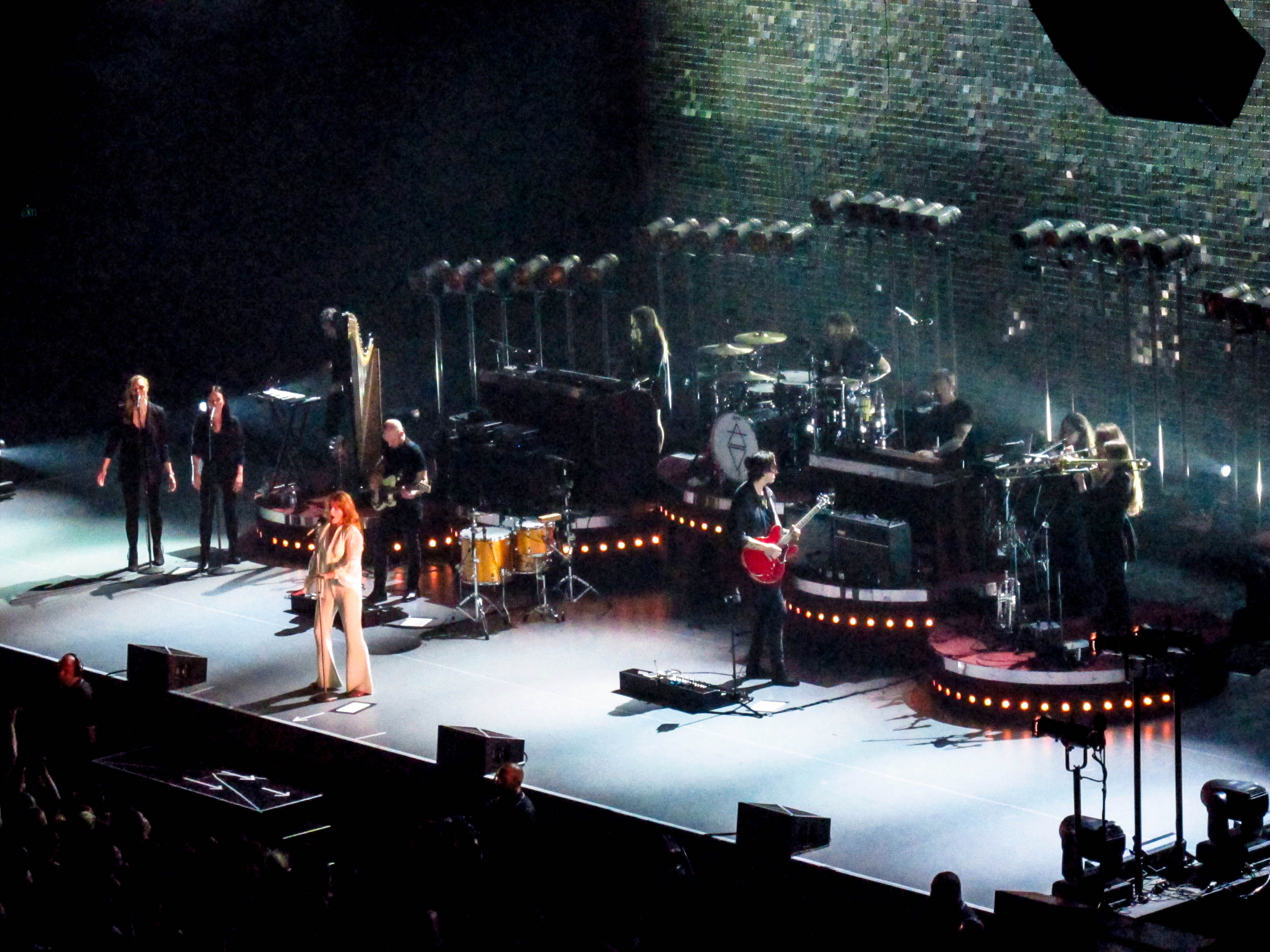 The pop septet assembles in a concert at Auckland and perform before an audience. On foreground, Mark Saunders, Florence Welch, and Robert Ackroyd. On background, Tom Monger, Isabella Summers, Christopher Hayden, and Rusty Bradshaw. (Original flickr description: Florence + The Machine. Vector Arena, Auckland, New Zealand. 21/11/2015)